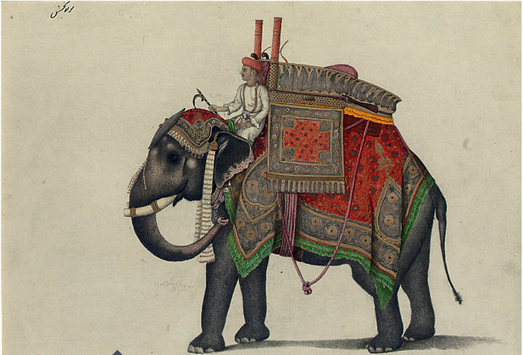 A Fraser Album Artist, 1815-1819 Elephant and driver, probably from the Mughal Emperor's stable with a hunting howdar, including pistol, bows and a rifle inscribed 'Maula Bakhsh' (in Persian, upper left) and further inscribed (centre left) pencil and watercolour heightened with bodycolour and gold 12¼ x 16½ in. (31.1 x 41.9 cm.)